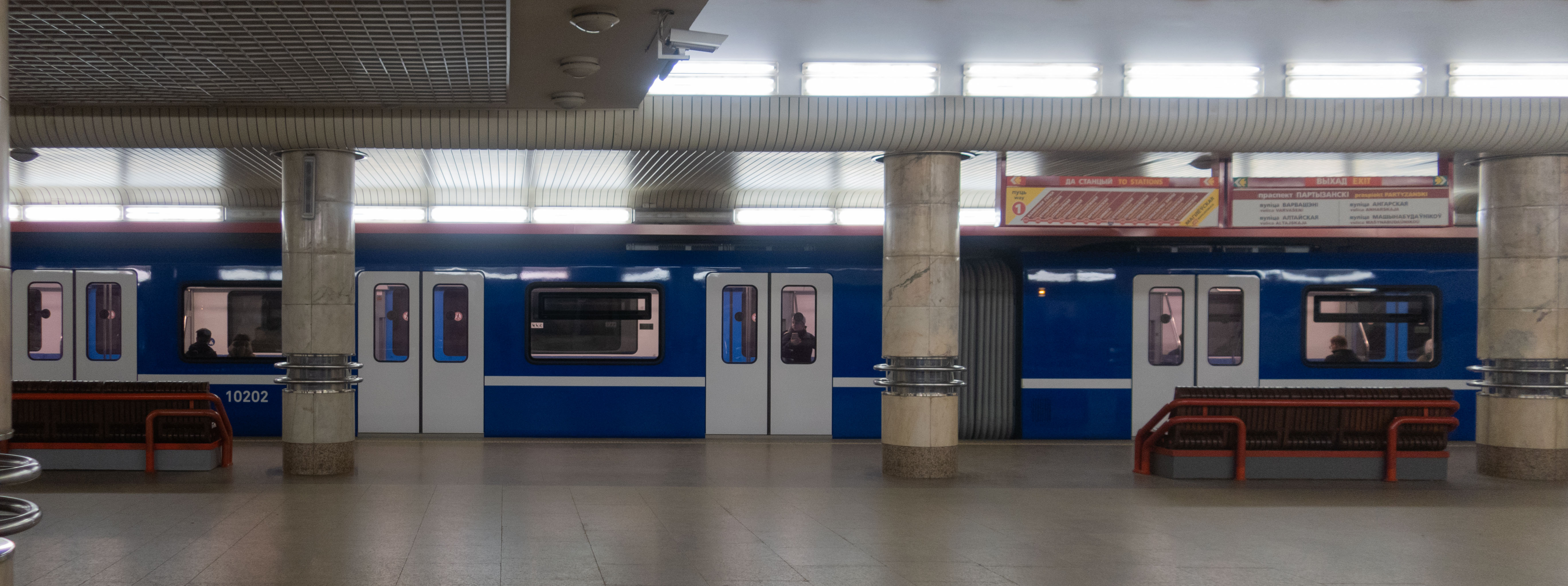 Stadler train in Minsk Metro while testing. Minsk, Belarus